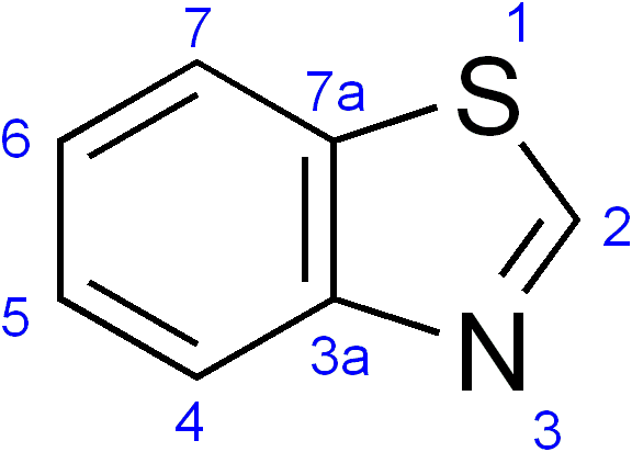 chemical structure of benzothiazole